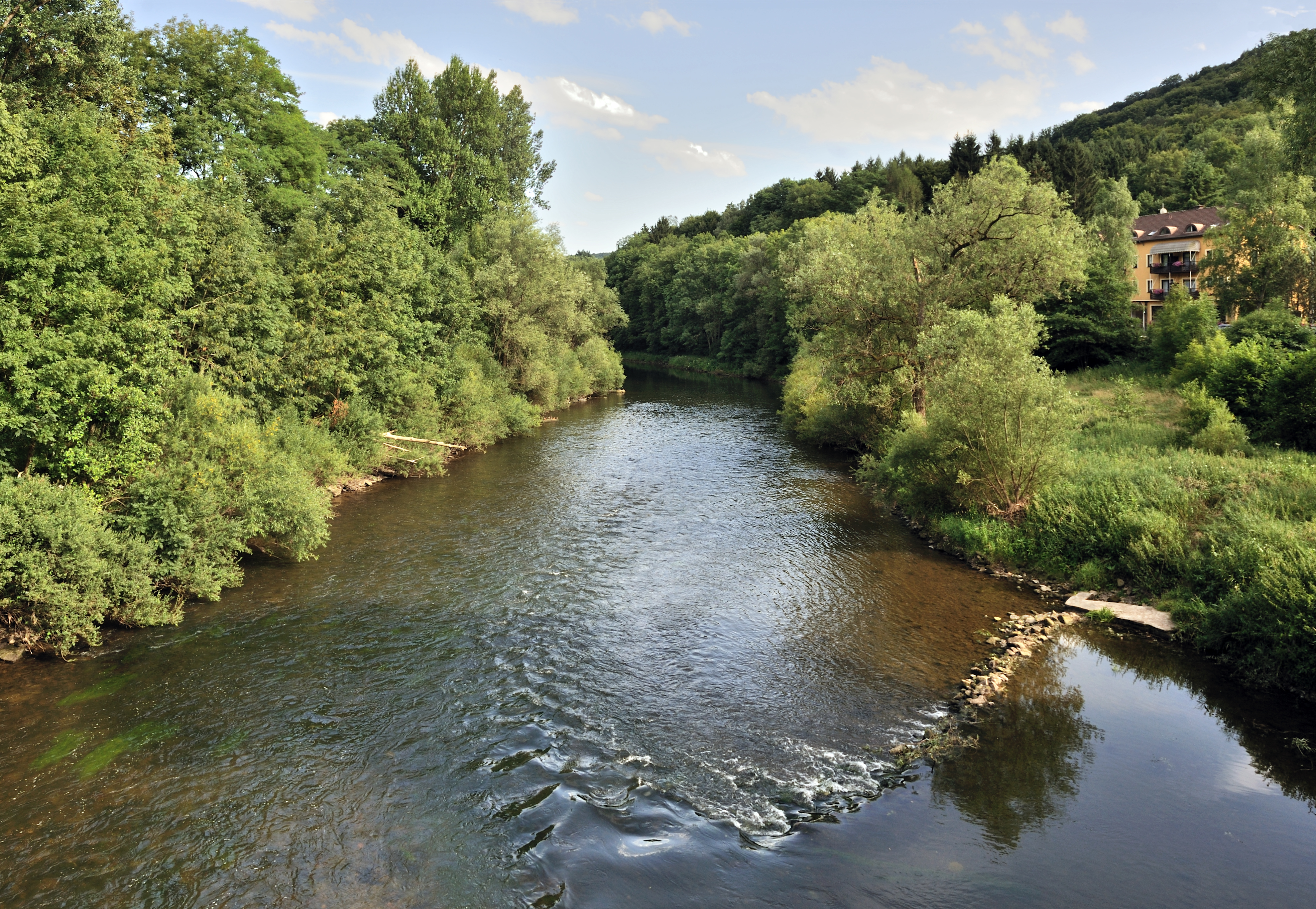 The river Sure as seen from the bridge at Weilerbach, upstreams of Echternach. The river Sure forms the boarder between Germany (at the left) and Luxembourg (at the right) here.